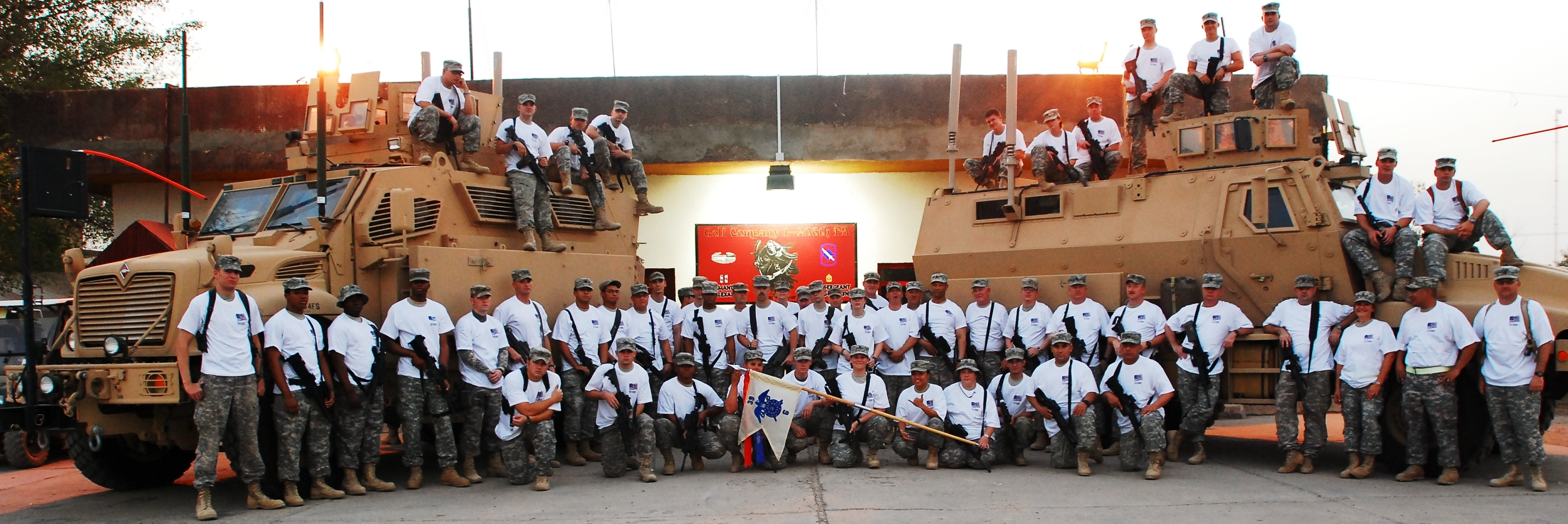 Member of Company G, 39th Brigade Support Battalion, the Forward Support Company for 1-206th FA model T-Shirts supplied to them by a member of the Family Readiness Group.